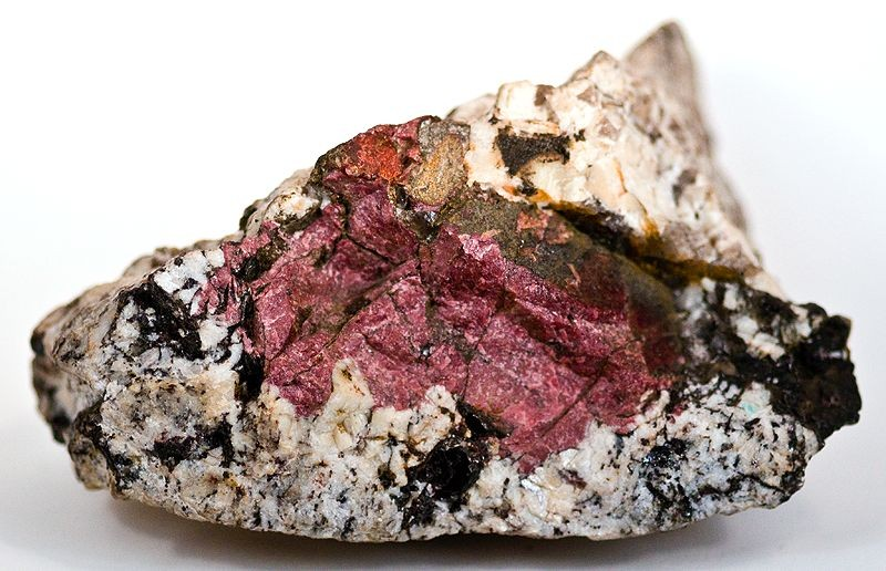 Danalite Locality: Rockport, Essex County, Massachusetts, USA (Locality at ) Size: 14.0 x 12.4 x 7.1 cm. Danalite is a member of the helvite group, rarely crystallizing. This is a large specimen with a massive embedded crystal of beautiful pink-red danalite, showing some fracture faces. What is more, it is from the old TYPE LOCALITY (from which it was described in 1866). Ex. Philadelphia Academy of Sciences Collection.